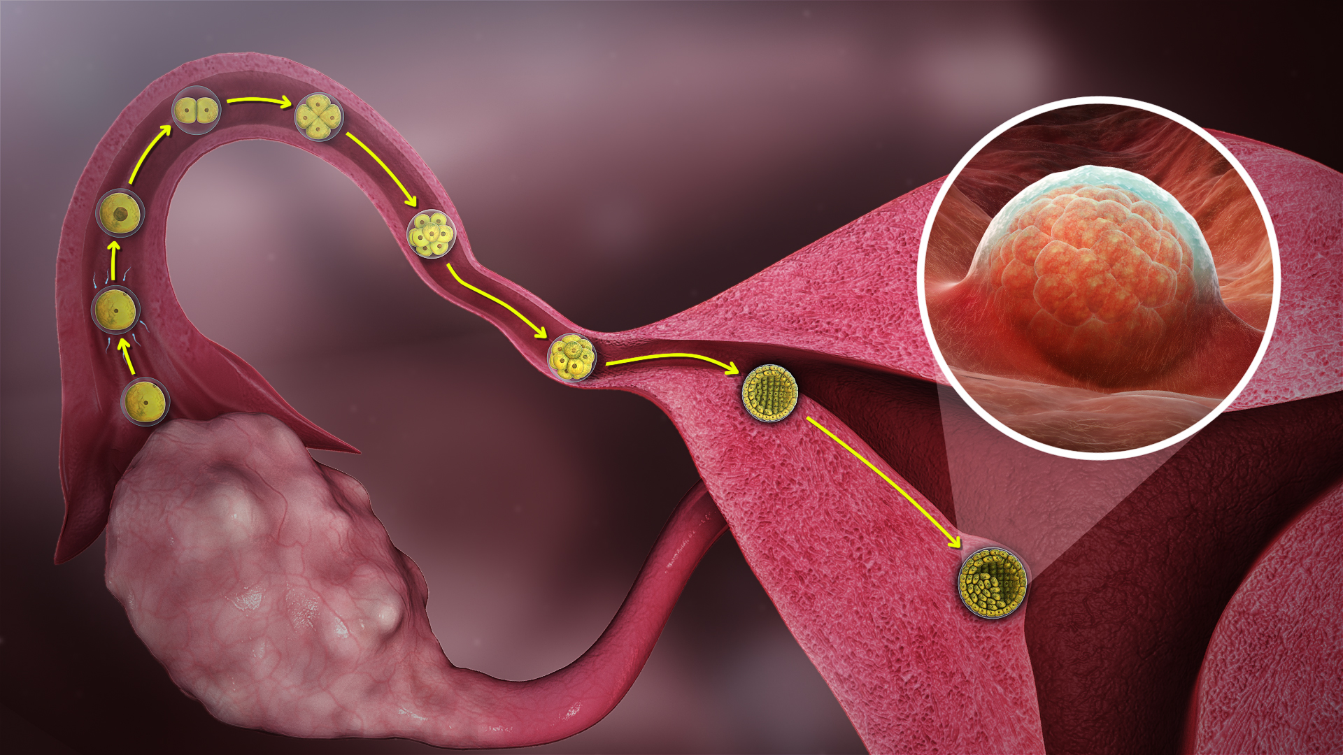 Still of 3D medical animation showing passage of oocyte from the ovary to the uterus, with a close-up of the last stage showing early human embryonic development.